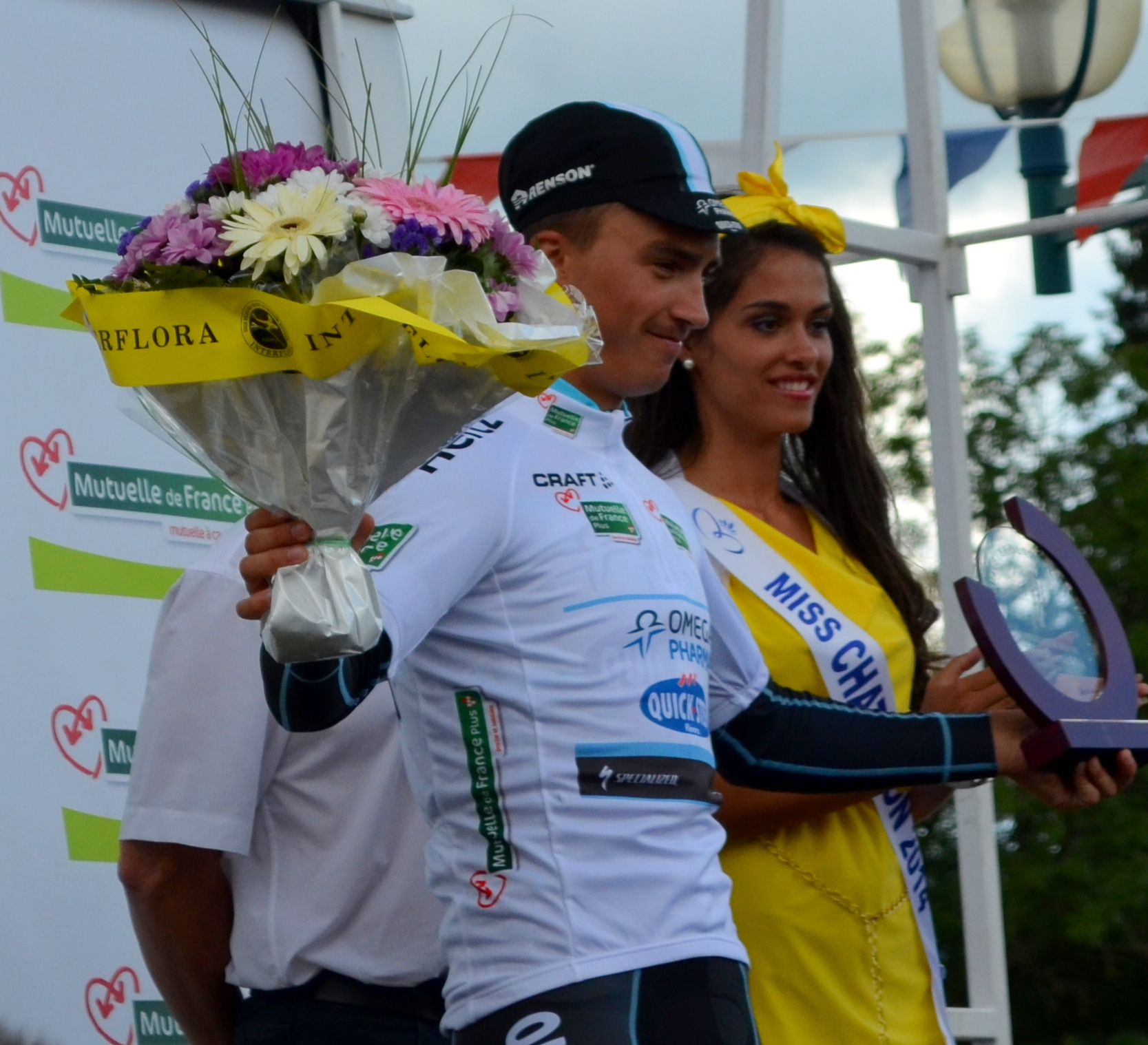 Tour de l'Ain 2014 - Stage 4 (finish, Arbent). Object location46° 16′ 46.2″ N, 5° 40′ 40.8″ E